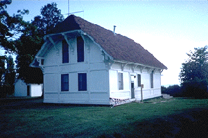 The North Manitou Island Lifesaving Station on North Manitou Island, Michigan, United States, is a designated US National Historic Landmark and is listed on the US National Register of Historic Places (NRHP). NRHP reference number 98001191